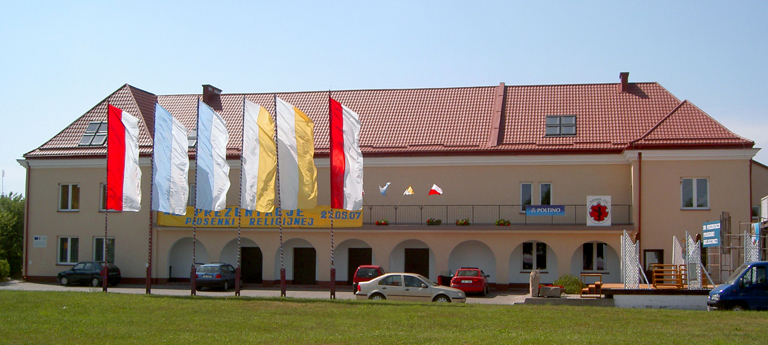 Tarnogród, Poland - Dom Kultury (stan obecny), House of Culture (present view)